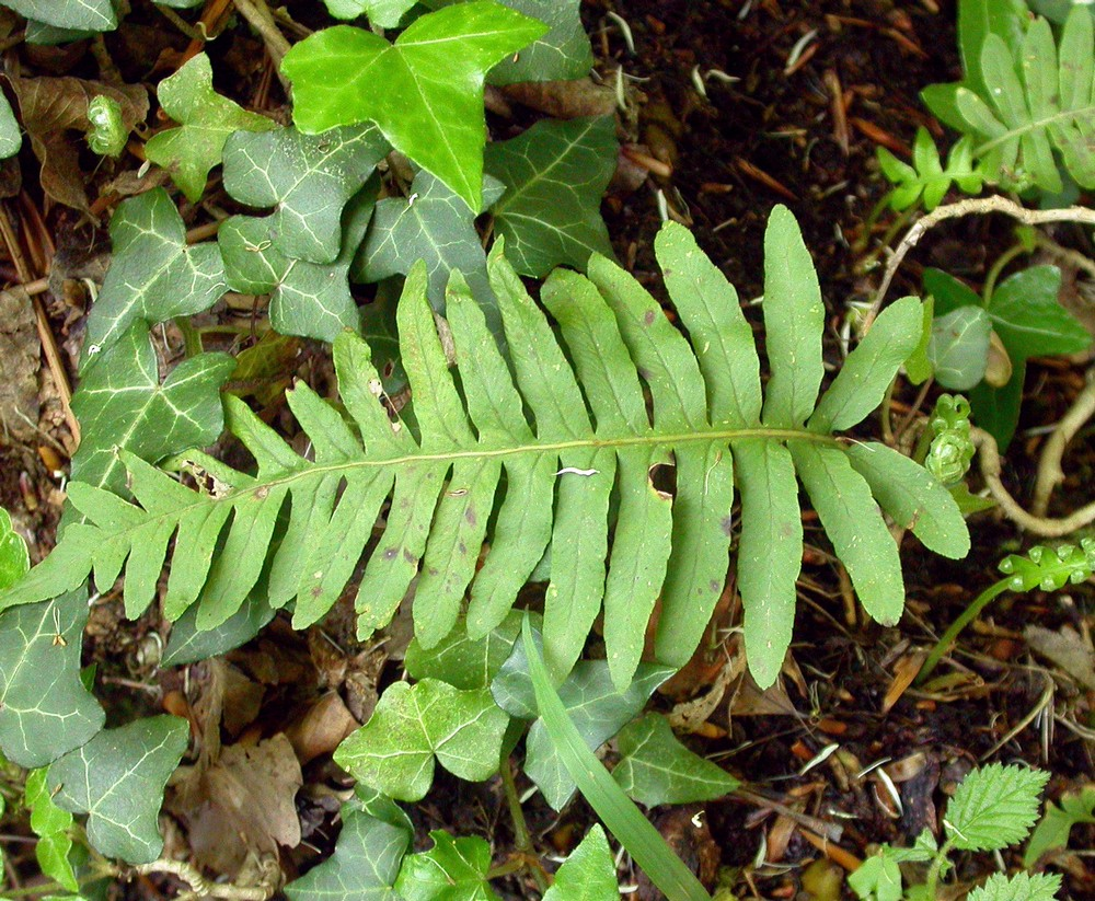 Polypodium interjectum, Foresta Umbra, Monte Gargano, Italy